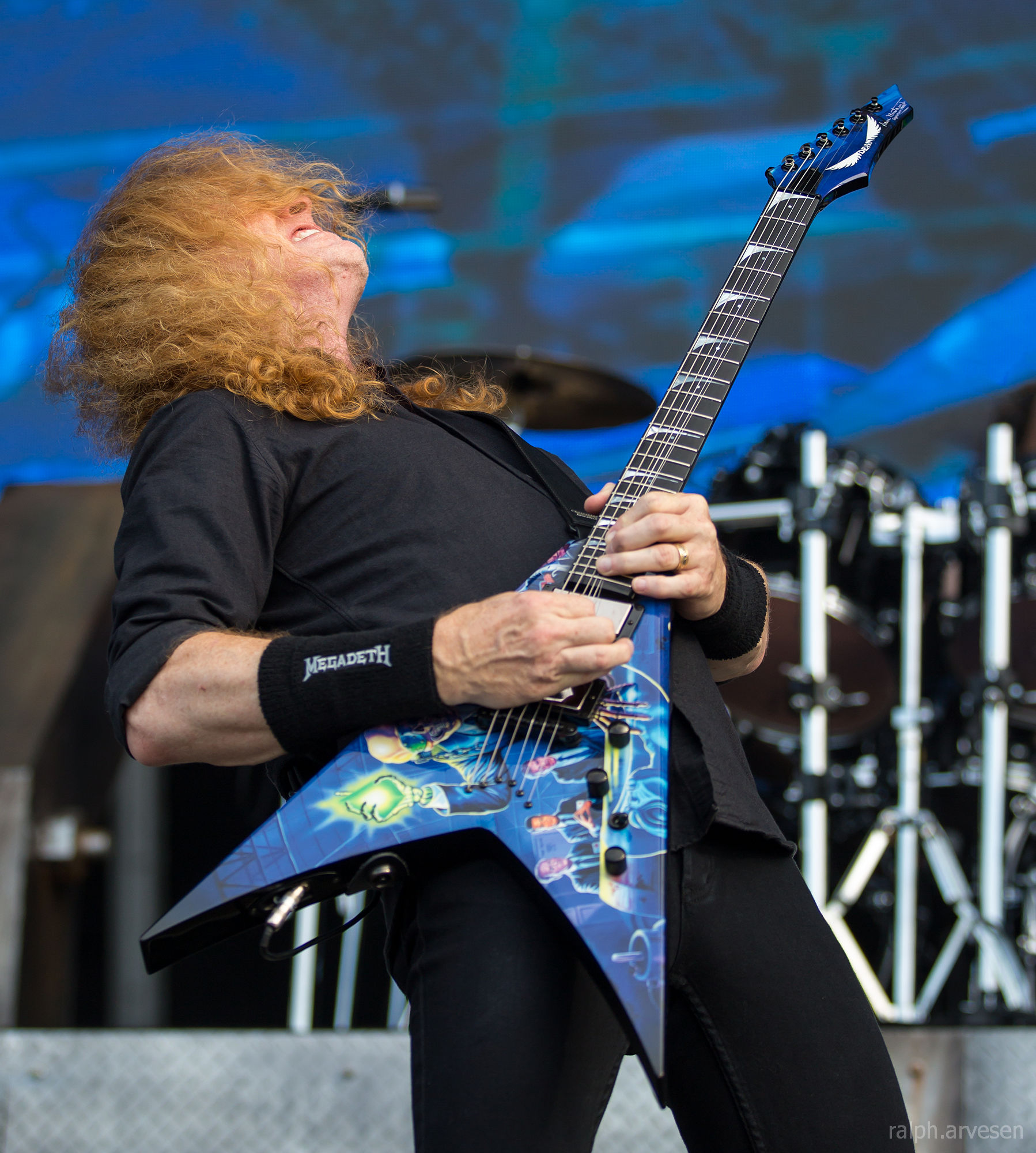 Megadeth performing during the River City Rockfest at the AT&T Center in San Antonio, Texas on May 29, 2016.